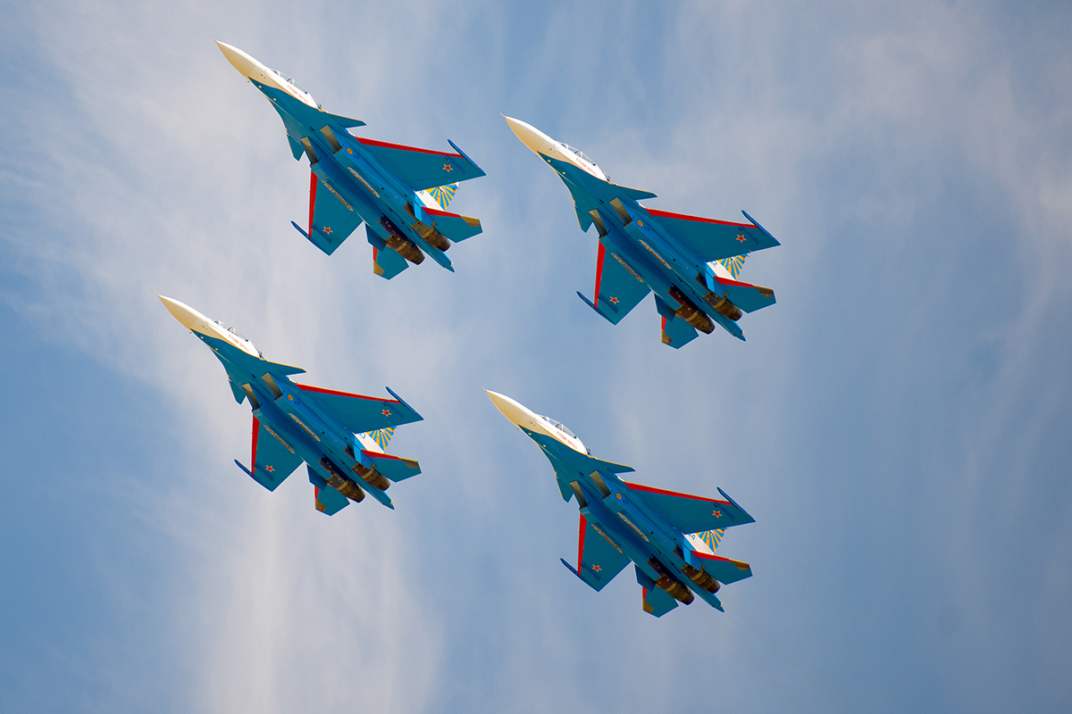 Aerobatic demonstration team "Russian Knights" at opening of the international exhibition LIMA'2017. Malaysia, 21 Mart 2017.